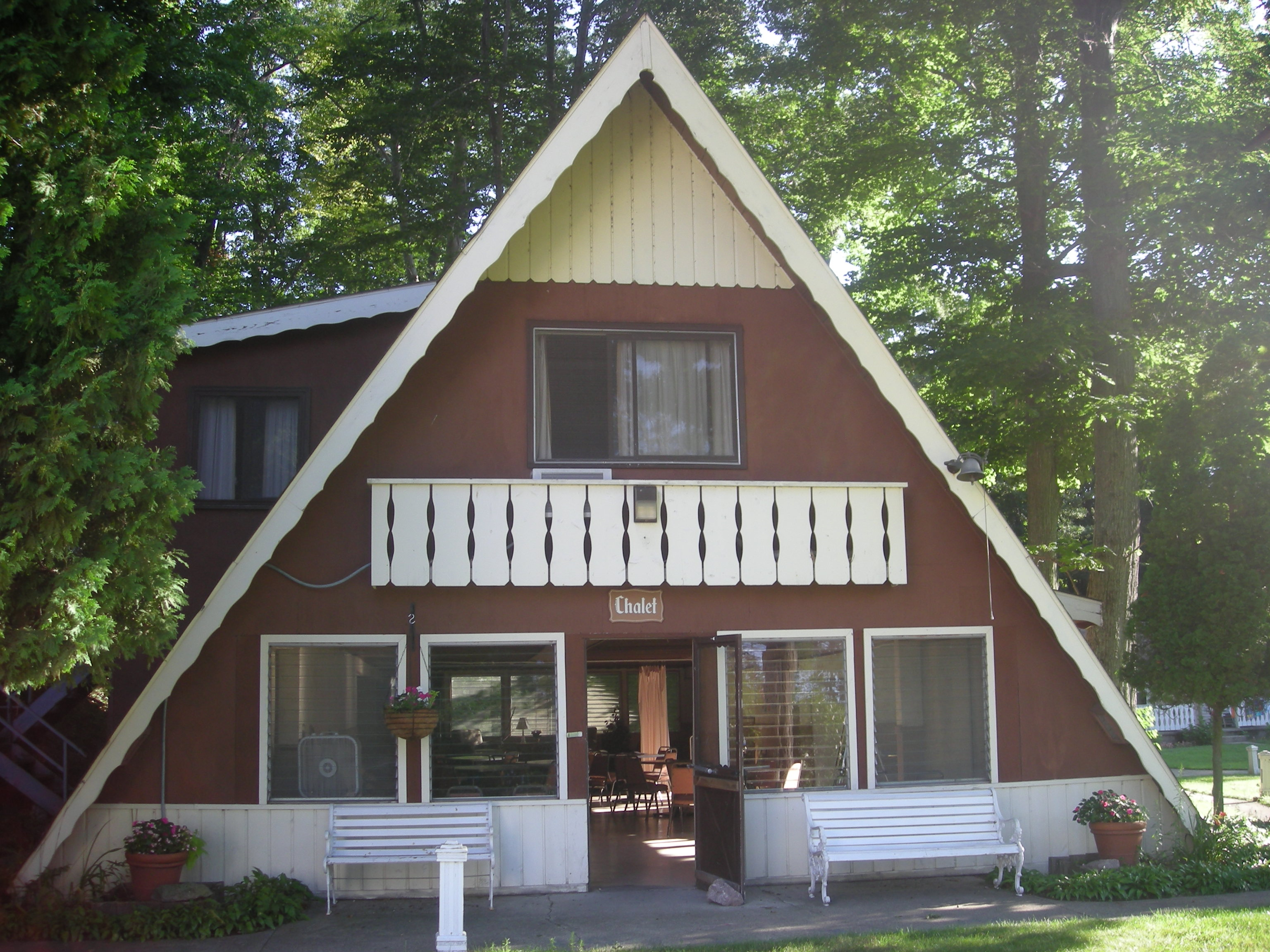 The Chalet at Michillinda Lodge in Whitehall, Michigan (United States).